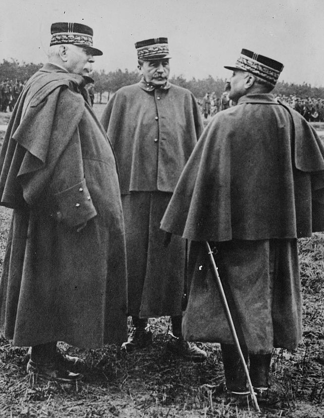 French general Fernand de Langle de Cary (1849-1927) with marshal Joseph Joffre (left) and general Adolphe Guillaumat (right)